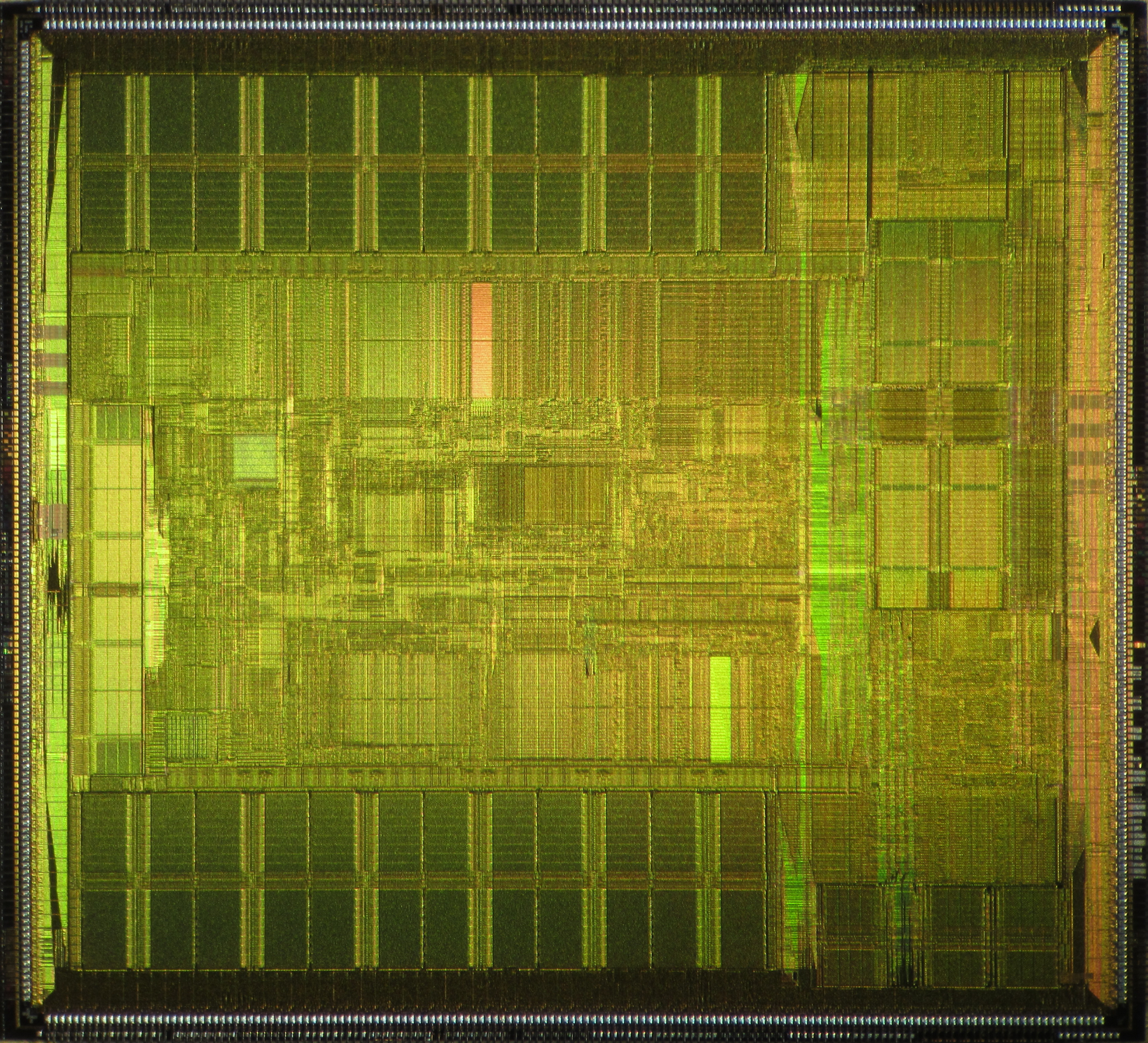 Die shot of DEC Alpha 21164 (EV5) microprocessor. Package markings are 21164-CA 333 and 21-40658-18 part number, and DEC chip number is DC275K.